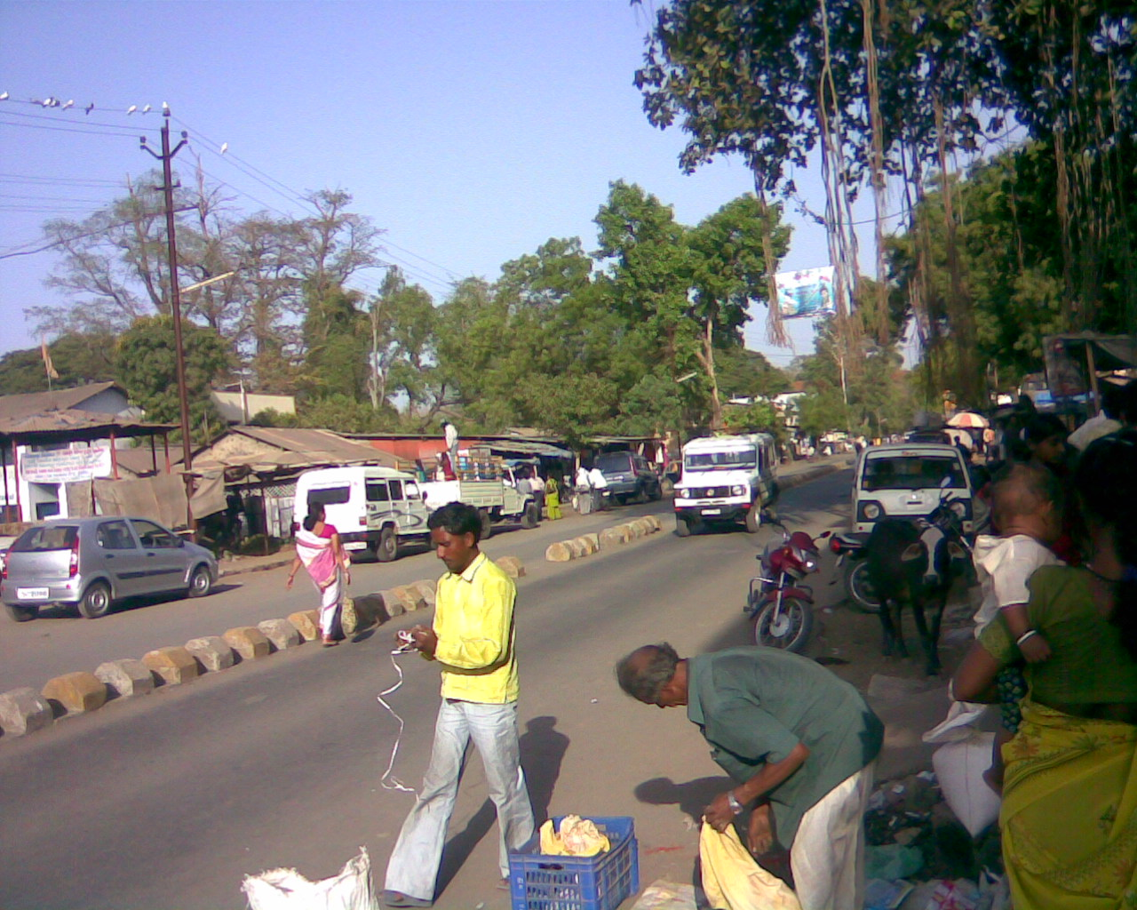 ગુજરાતી: Waghai village It is my own work.